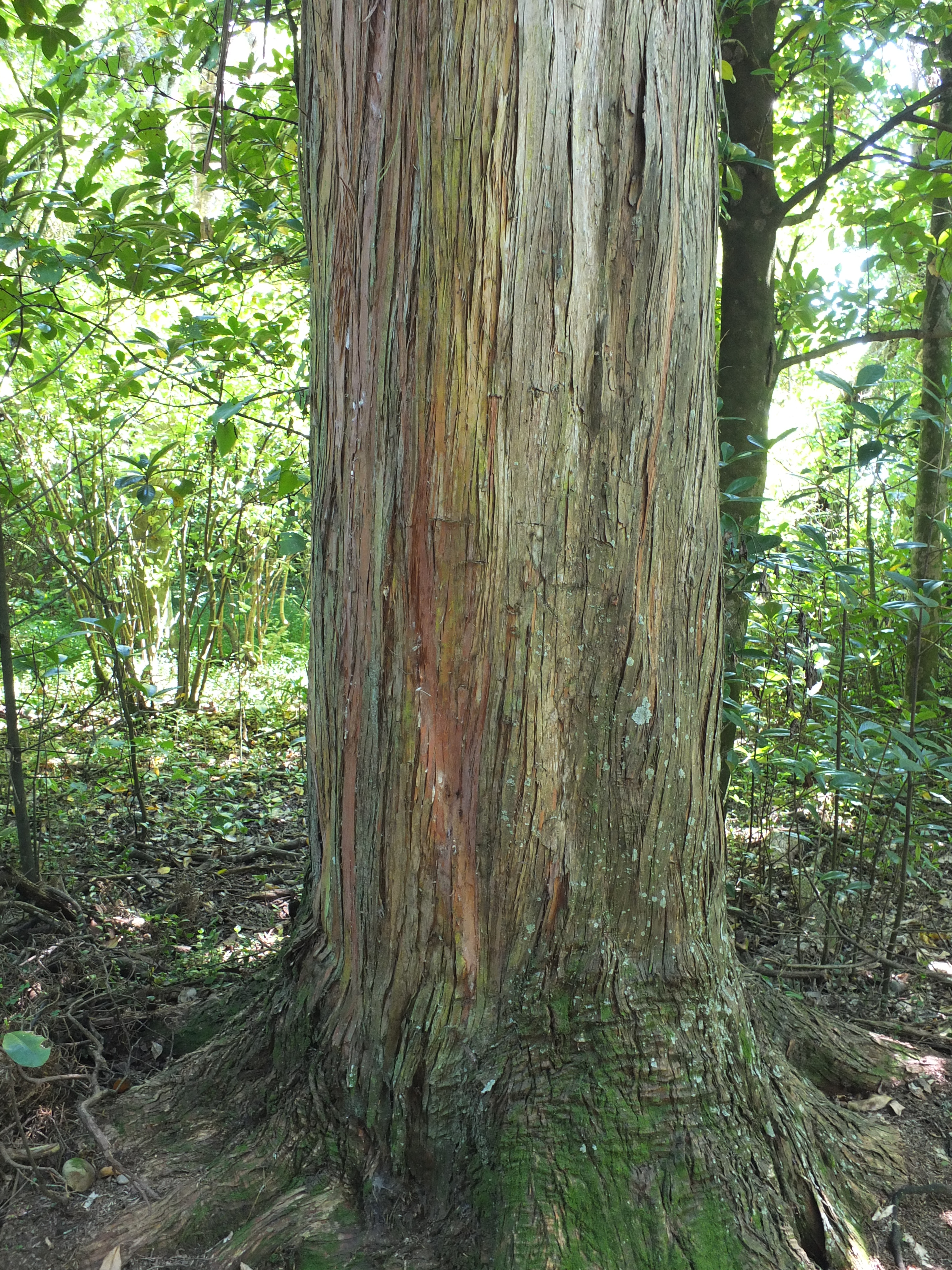 Trunk of a tōtara tree (Podocarpus totara) in Prouse Bush, Levin, New Zealand